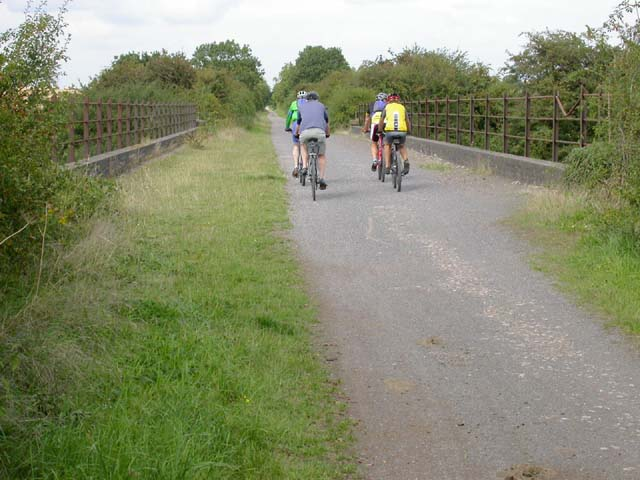 Bridge with Serious Cyclists. Built as a railway bridge, it now carries the Brampton Valley Way over a brook marking a parish boundary. Spratton CP is to the north and Brixworth CP is, here, to the south.